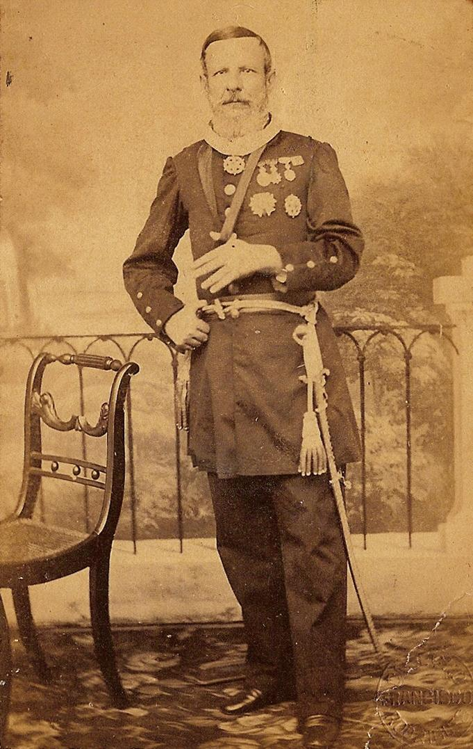 Lieu. Gen. Victorino José Carneiro Monteiro, Baron of São Borja (1816–1877)